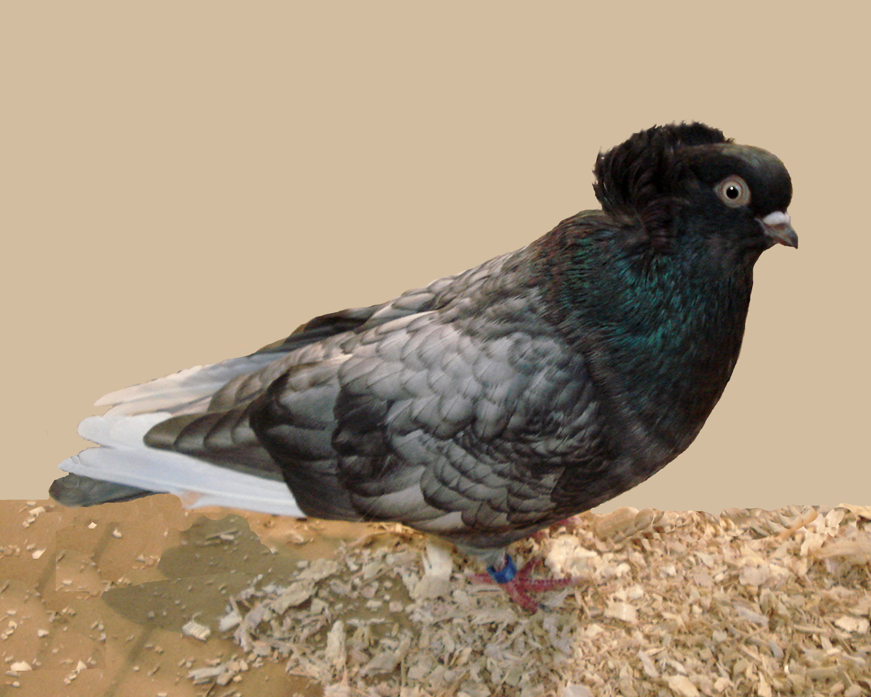 Andalusion blue Komorner Tumbler (European style) original photo by leestababee